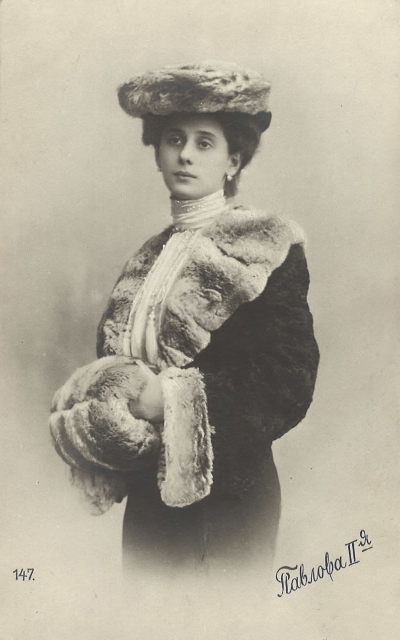 Photographic postcard of Anna Pavlova (1881-1931) - Prima ballerina of the St. Petersburg Imperial Theatres - in Giselle.